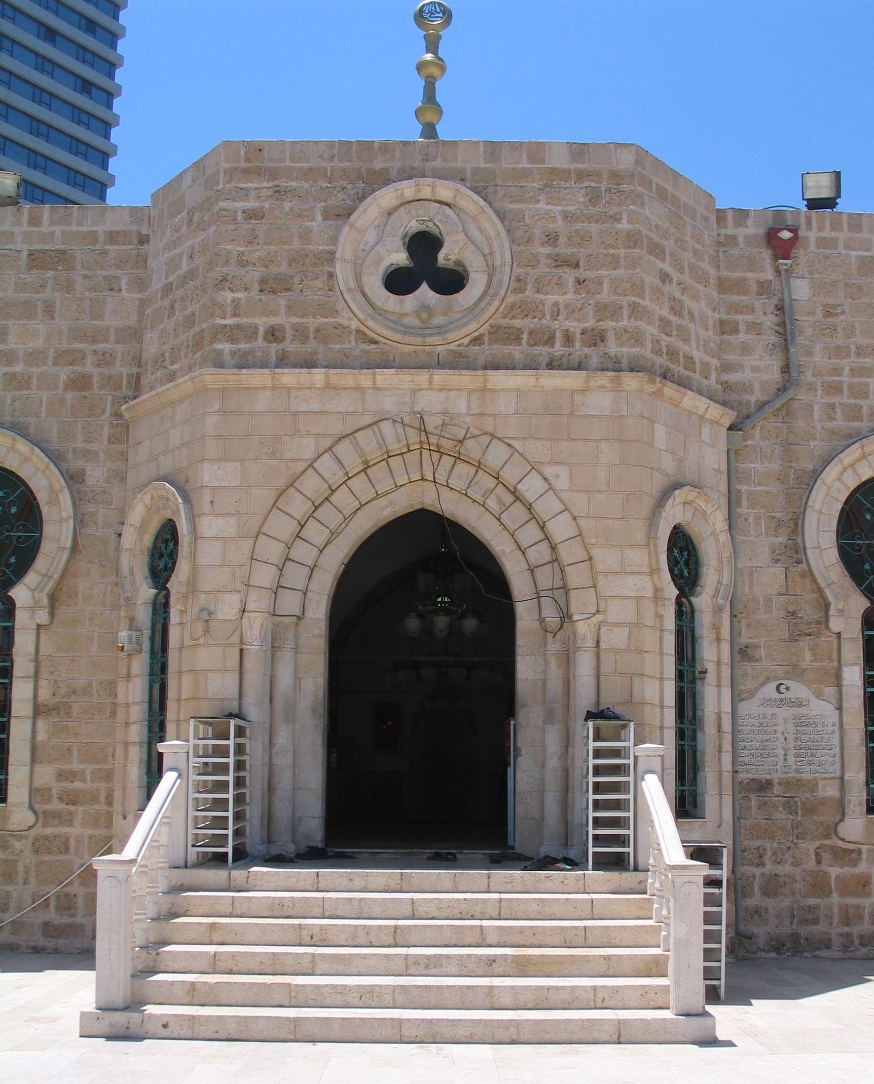 Hassan Bek mosque, Tel Aviv Yafo, Israel.